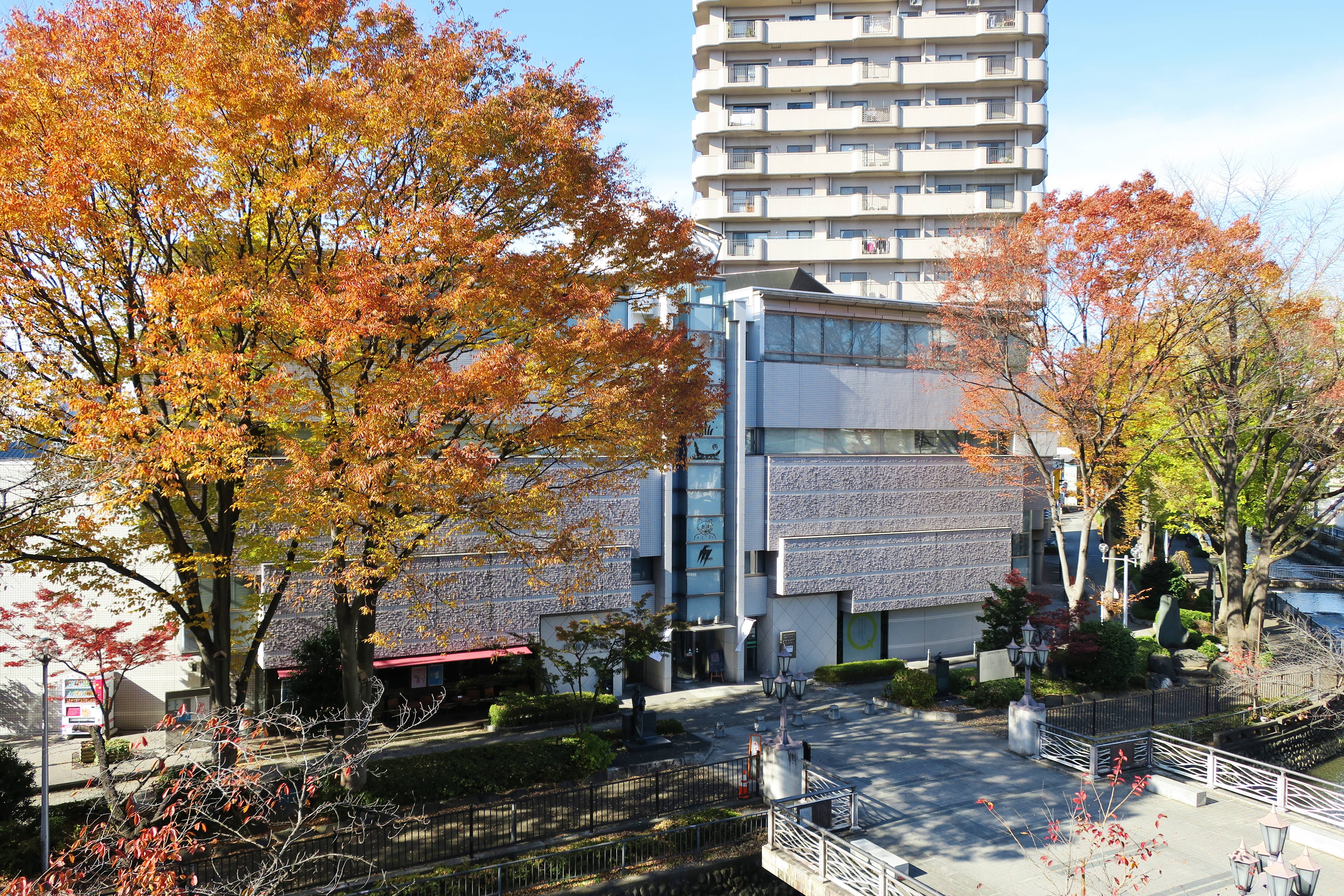 Maebashi City Museum of Literature.